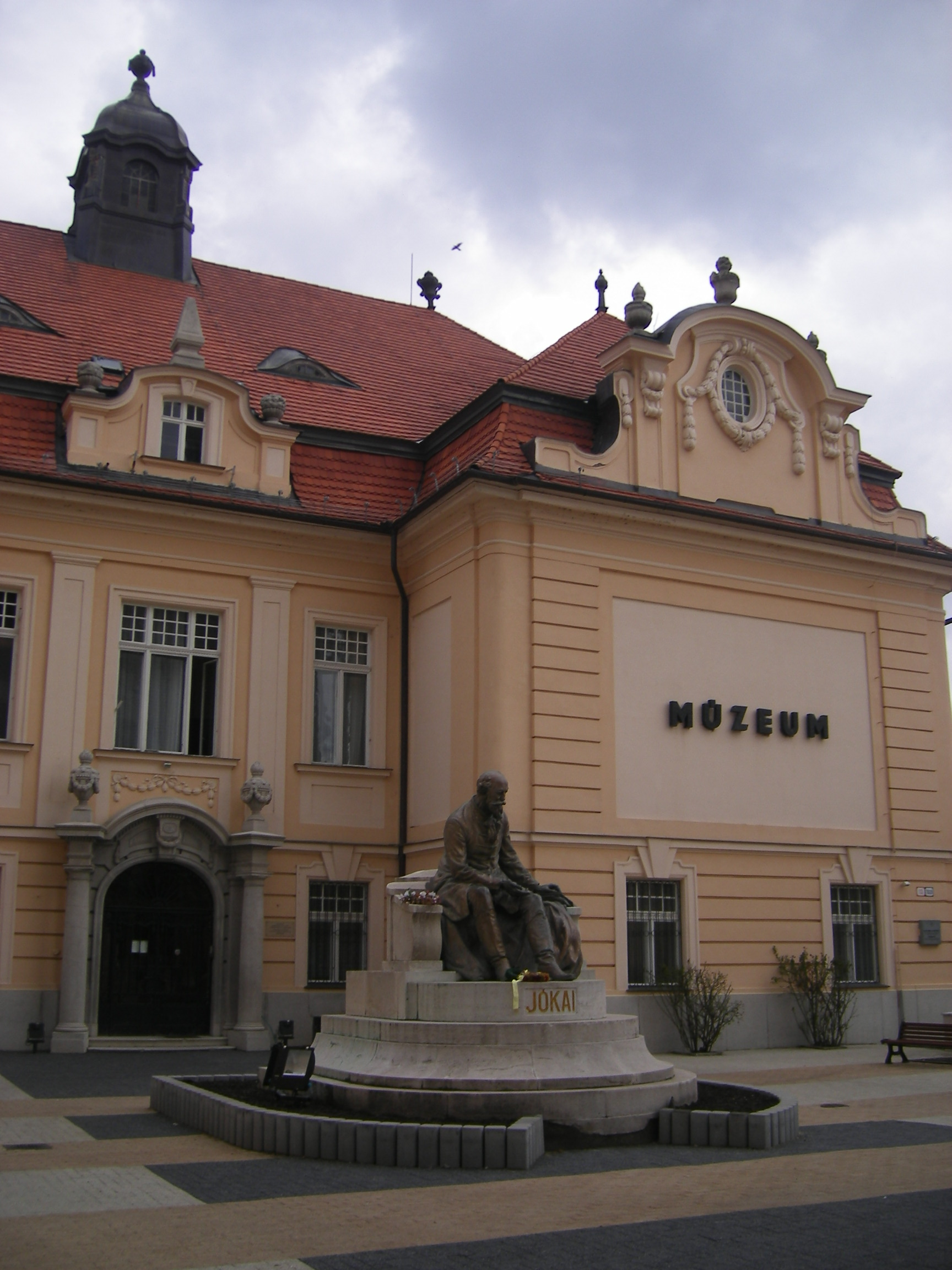 Komárno - Museum Building and statue of Jókai Mór